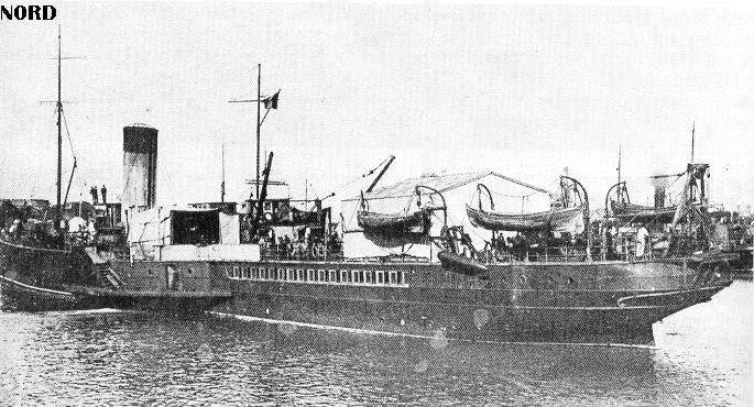 The French seaplane tender Nord in 1915.